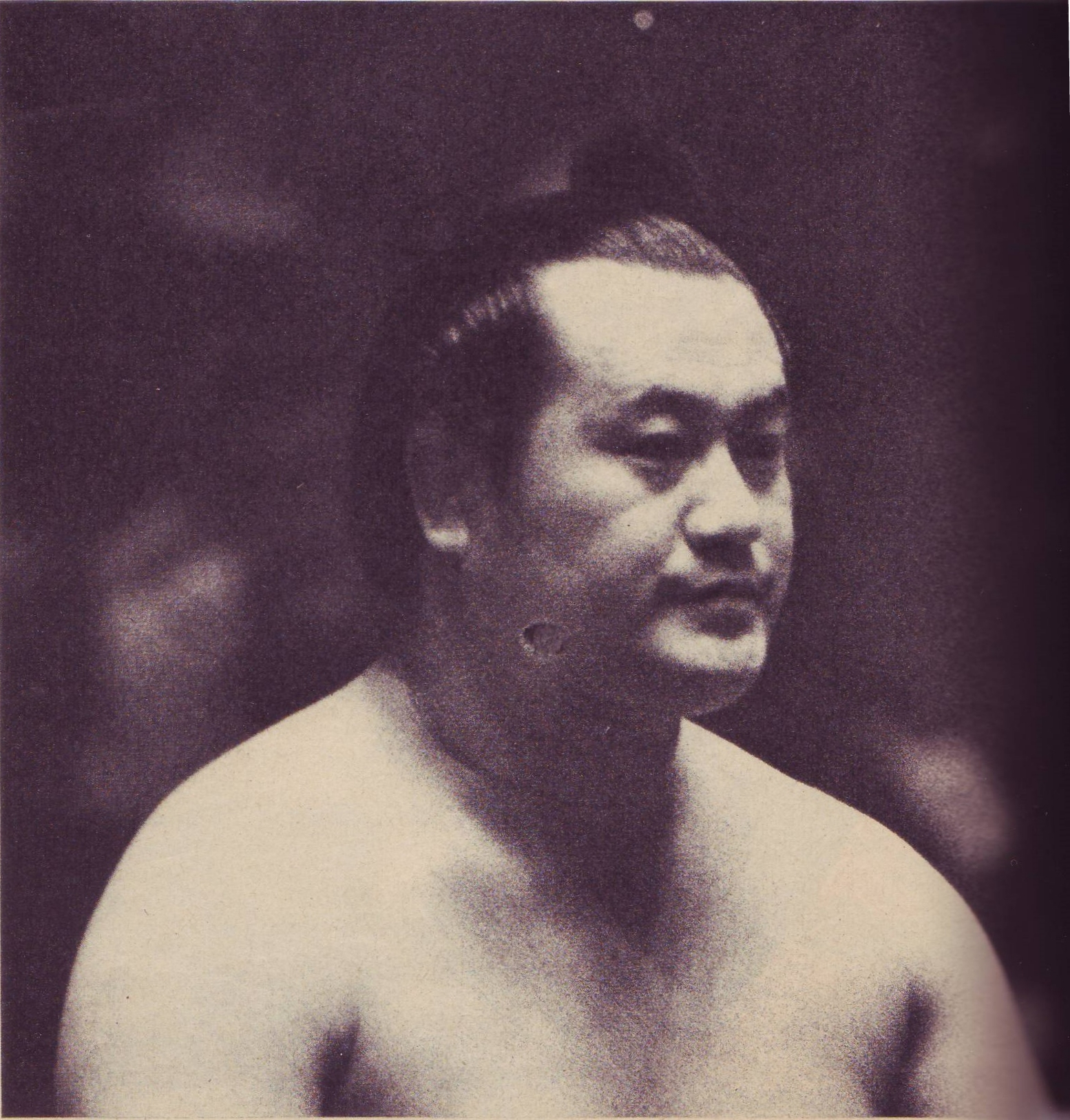 Shinobuyama Harusada (Sekiwake. taken in 1959, or before that).